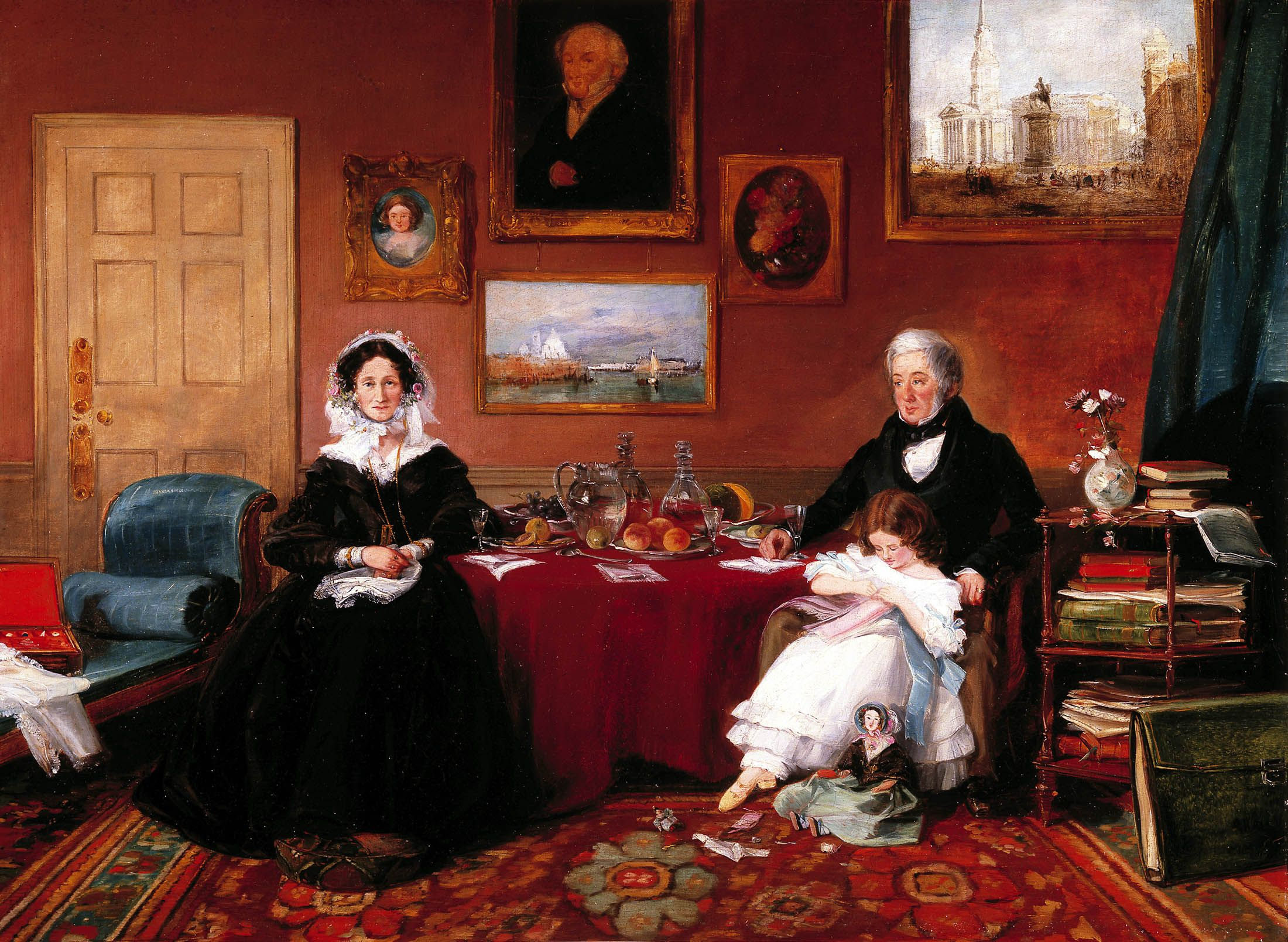 The Langford Family in their Drawing Room. Oil on Canvas. Signed. 23 1/2 x 32 1/2 in (59.5 x 82.5 cm).